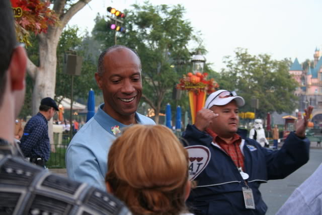 Ed Grier during the CHOC Walk in Late October. A Stormtrooper can be seen in the background.